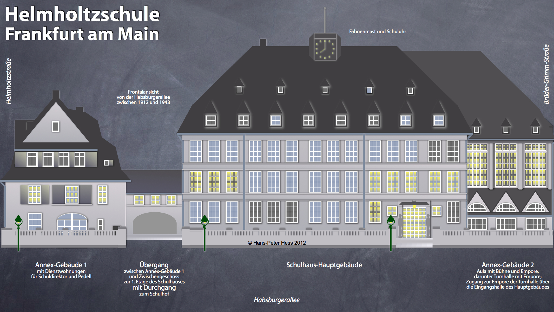 Graphics: Frontal view of Helmholtzschule, Frankfurt am Main, Hesse, Germany as of 1912 to 1943